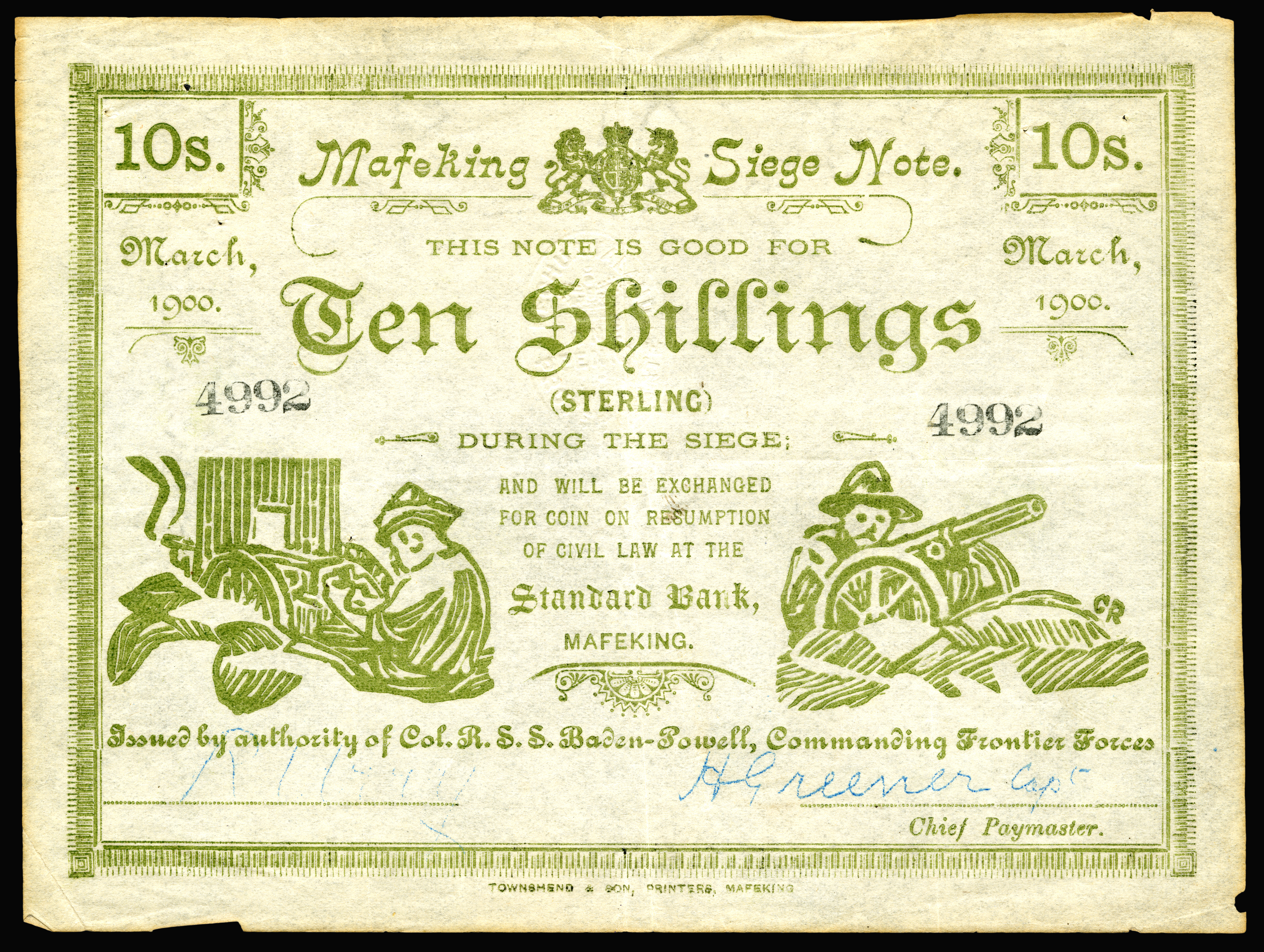 Mafeking, South Africa, 10 Shillings (1900), Boer War currency issued by authority of the Commander of Frontier Forces, Colonel Robert Baden-Powell.